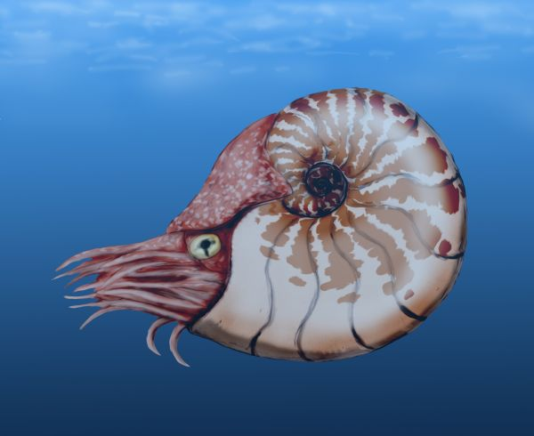 Cenoceras